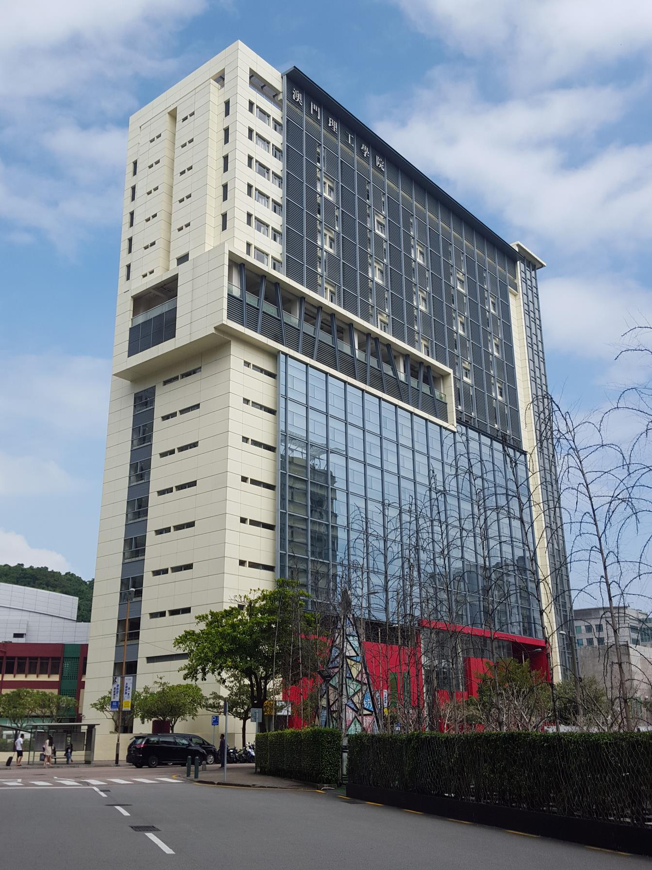 MPI Ming Tak Building